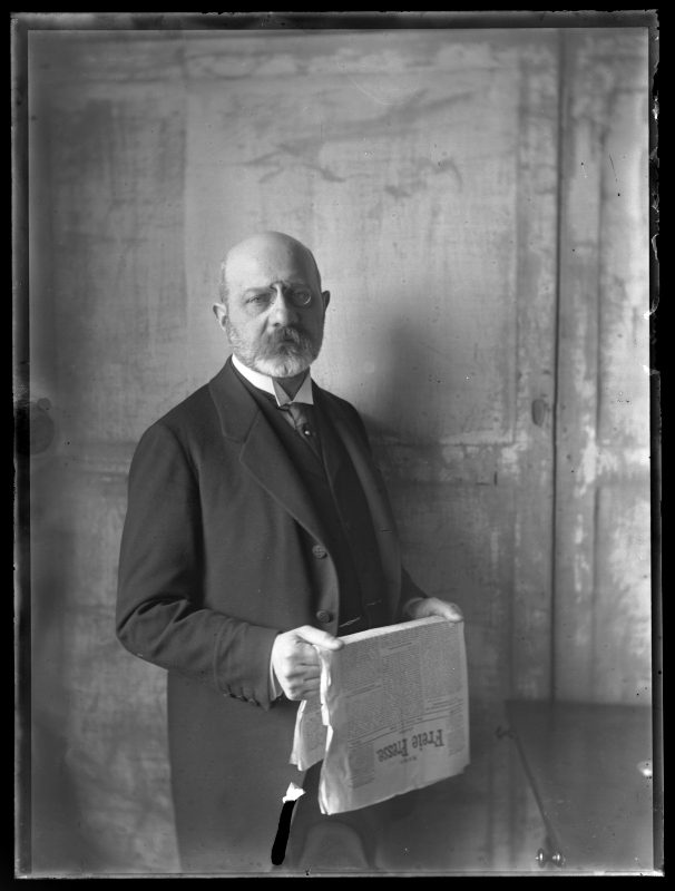 The Austrian internist Julius Mannaberg (1860–1941), director of the Wiener Allgemeine Poliklinik (Policlinic hospital, Vienna)